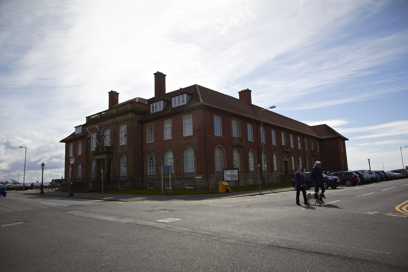 South Ayrshire Council Buildings